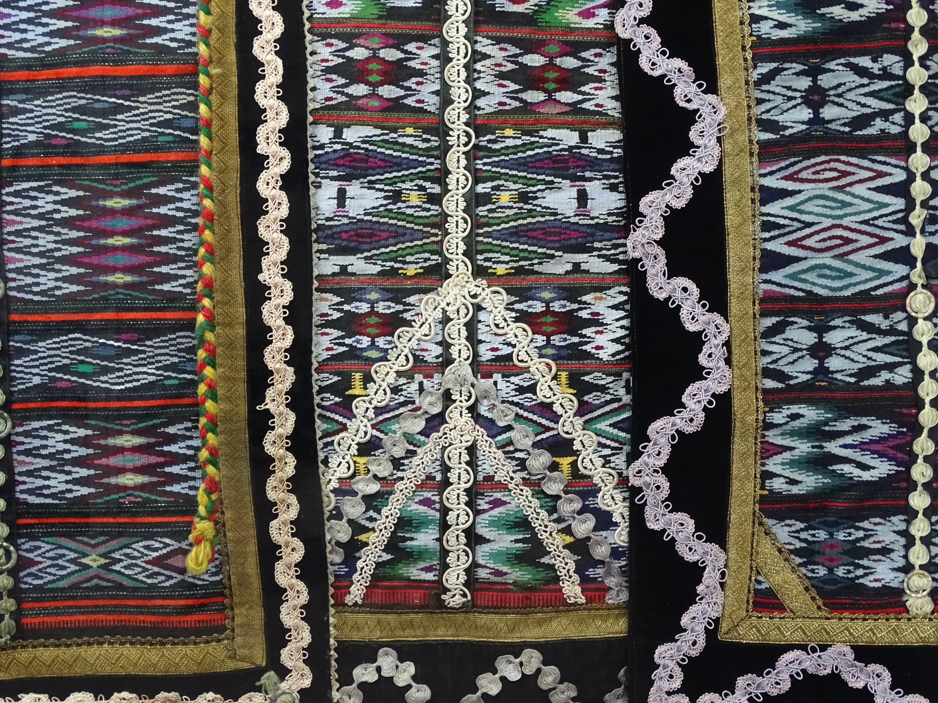 Traditional Embroidery - Sarafkina Kashta - National Revival-Style House-Museum - Veliko Tarnovo - Bulgaria